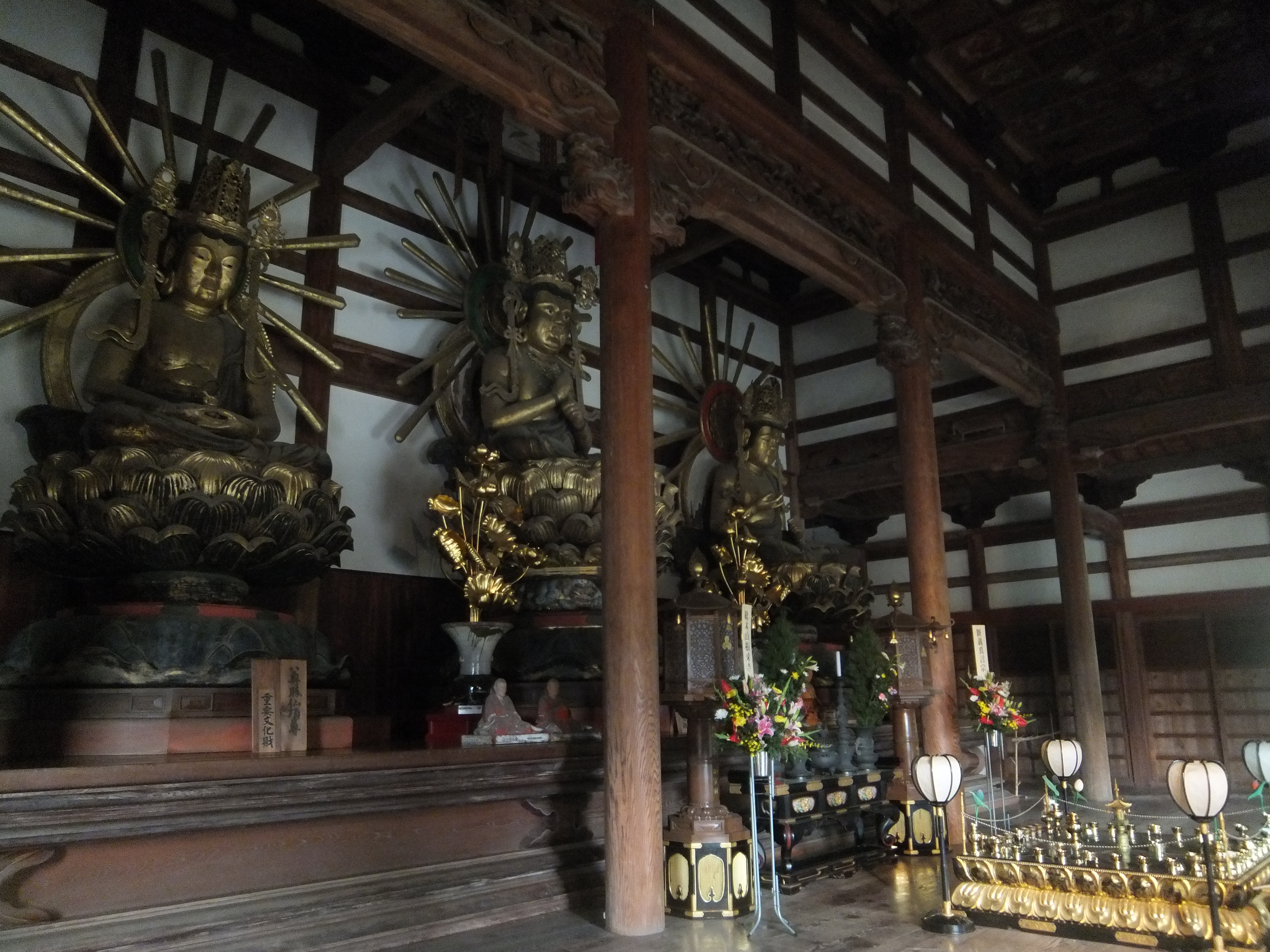 Great Hall of Teaching (Dai-dempō-dō) of the Negoro-Temple (Negoro-ji) in Iwade (Wakayama prefecture, Japan).